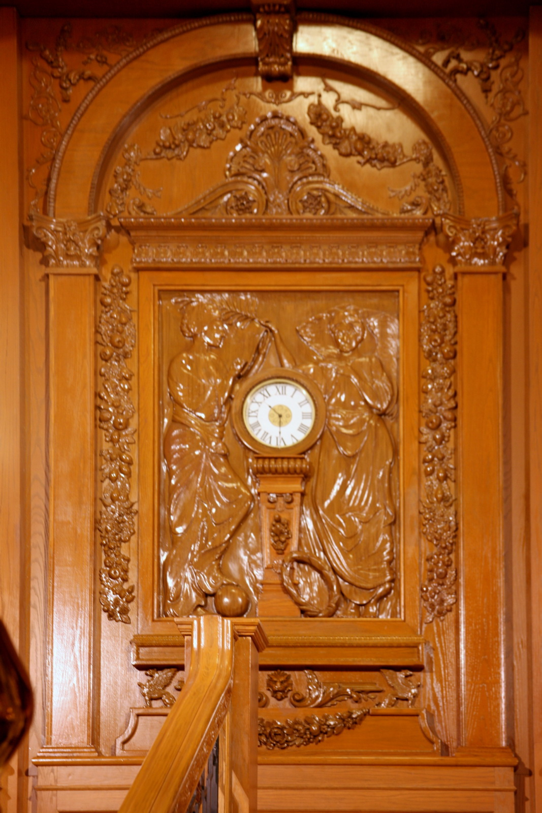 The decoration of the staircase was a curious combination of styles. The paneling and woodwork were made by master craftsmen in the English William and Mary style. To this was added iron banister grillwork and ormolu garlands inspired by the French court of Louis XIV. Typical of the times, a bronze cherub held aloft a lamp to light the landings of the staircase. Many years earlier, lamp stands had been placed at the foot of staircases for safety, but with dozens of gilded crystal chandeliers lighting Titanic's entrance halls and staircases, the cherubs on Titanic were very ornamental.